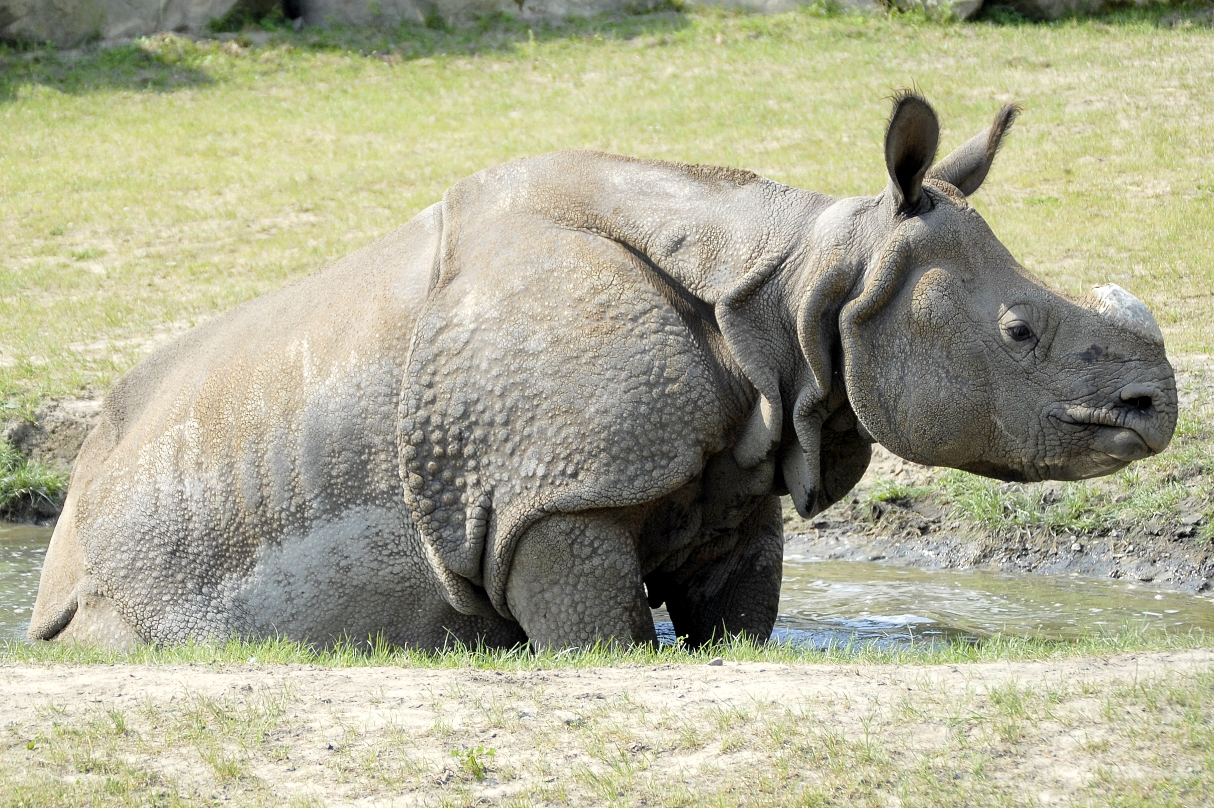 Indian Rhinoceros in the Warsaw ZOO